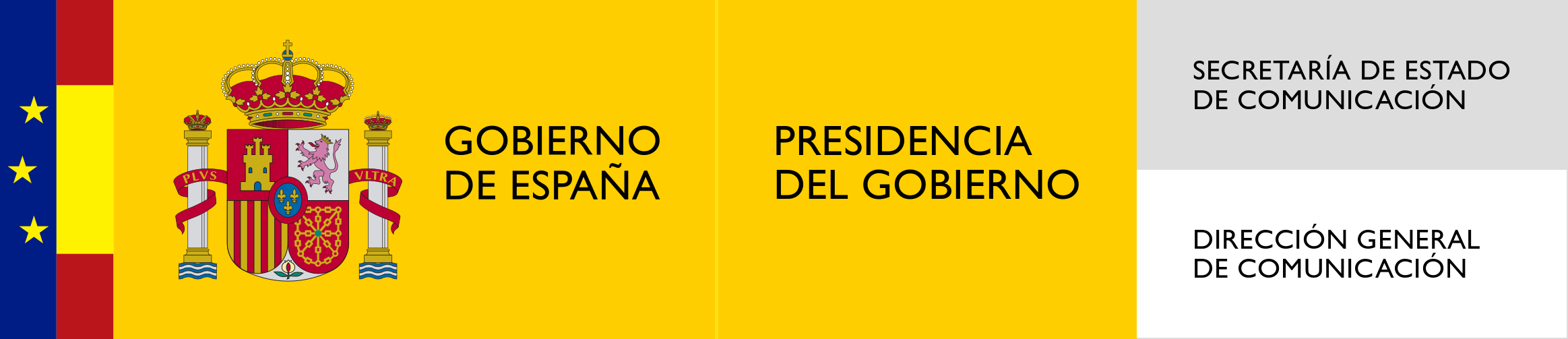 Logo of the Directorate-General for Communication of the Government of Spain.